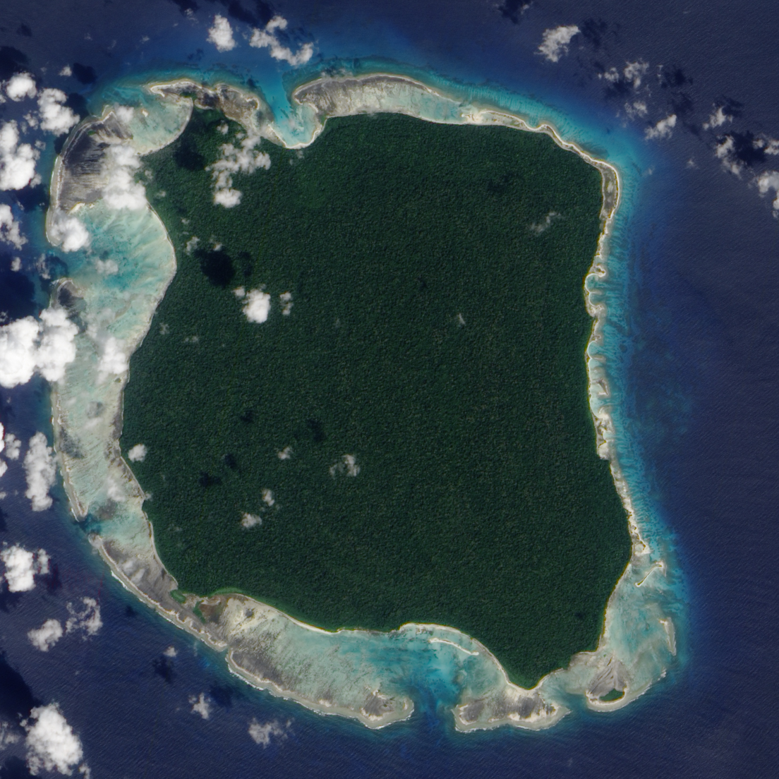 On December 26, 2004, a huge earthquake offshore of Sumatra, Indonesia, unzipped a 1,600-kilometer (994-mile) stretch of the sea floor, heaved it upward as much as 5 meters (16 feet), and unleashed devastating tsunamis that scoured coastlines of countries around the Bay of Bengal and the Andaman Sea. Hundreds of thousands of people died. From space, the most visible evidence of the event included permanent uplift of islands and coral reefs along the rupture, including remote North Sentinel Island, pictured in this photo-like image from the Advanced Land Imager on NASA’s Earth Observing-1 (EO-1) satellite from November 20, 2009. Surrounding the forested island is a perimeter of uplifted reef. Compared to their bright white color in an image acquired in February 2005 (less than two months after the quake), the exposed reefs are duller in this recent image. The darkening may be because the reefs have since been covered with mud, sand, or algae, and because the tide appears to be higher at the time of the recent image. The undisturbed appearance of the island’s forest might suggest it is uninhabited, but in fact, North Sentinel Island is home to one of the few remaining primitive tribes on Earth—hunter-gatherer tribes which have had little or no contact with modern civilization. The Indian government, which oversees the Andaman Islands territory, prohibits visitors of any kind, and the islanders themselves violently rebuff any attempts at contact. Following the 2004 tsunami, the Indian Coast Guard flew a reconnaissance mission over the island; according to news reports and photos, men emerged from the forest and fired arrows at the helicopter, which did not attempt to land.